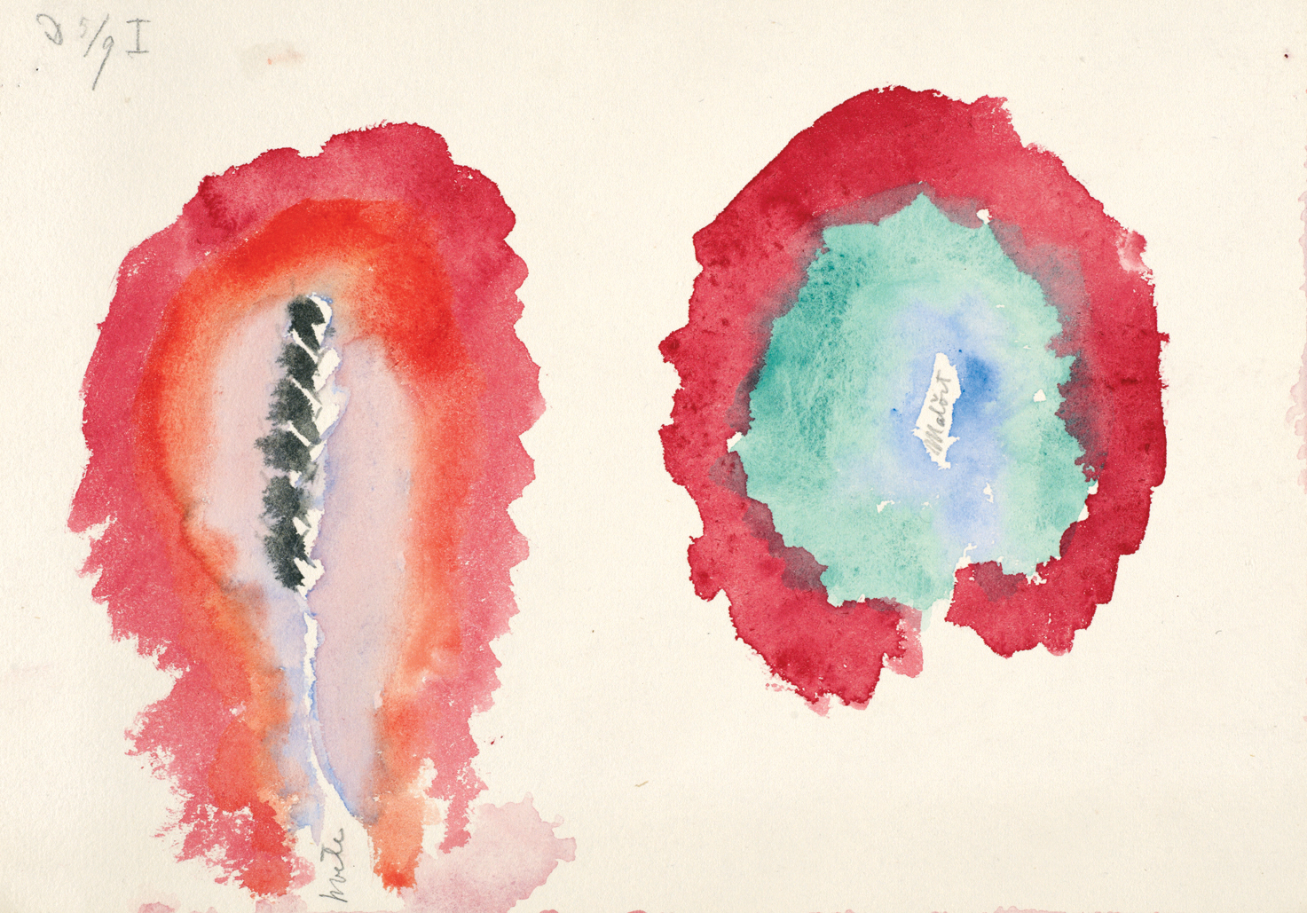 Hilma af Klint: Wheat and Wormwood, 1922